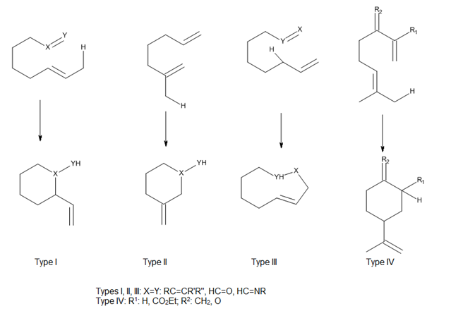 intramolecular ene